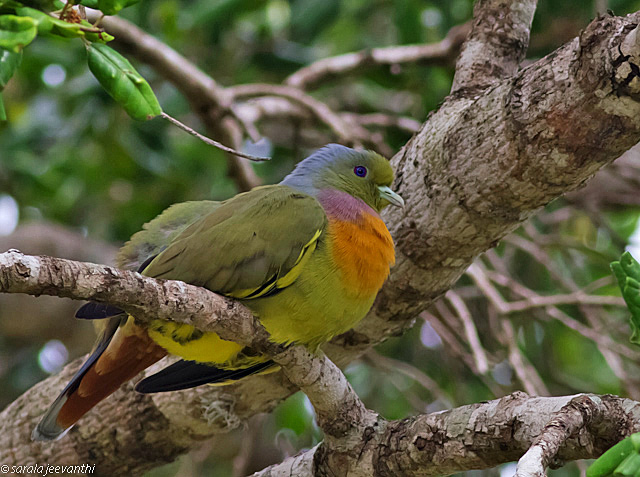 Weligatta , Sri Lanka